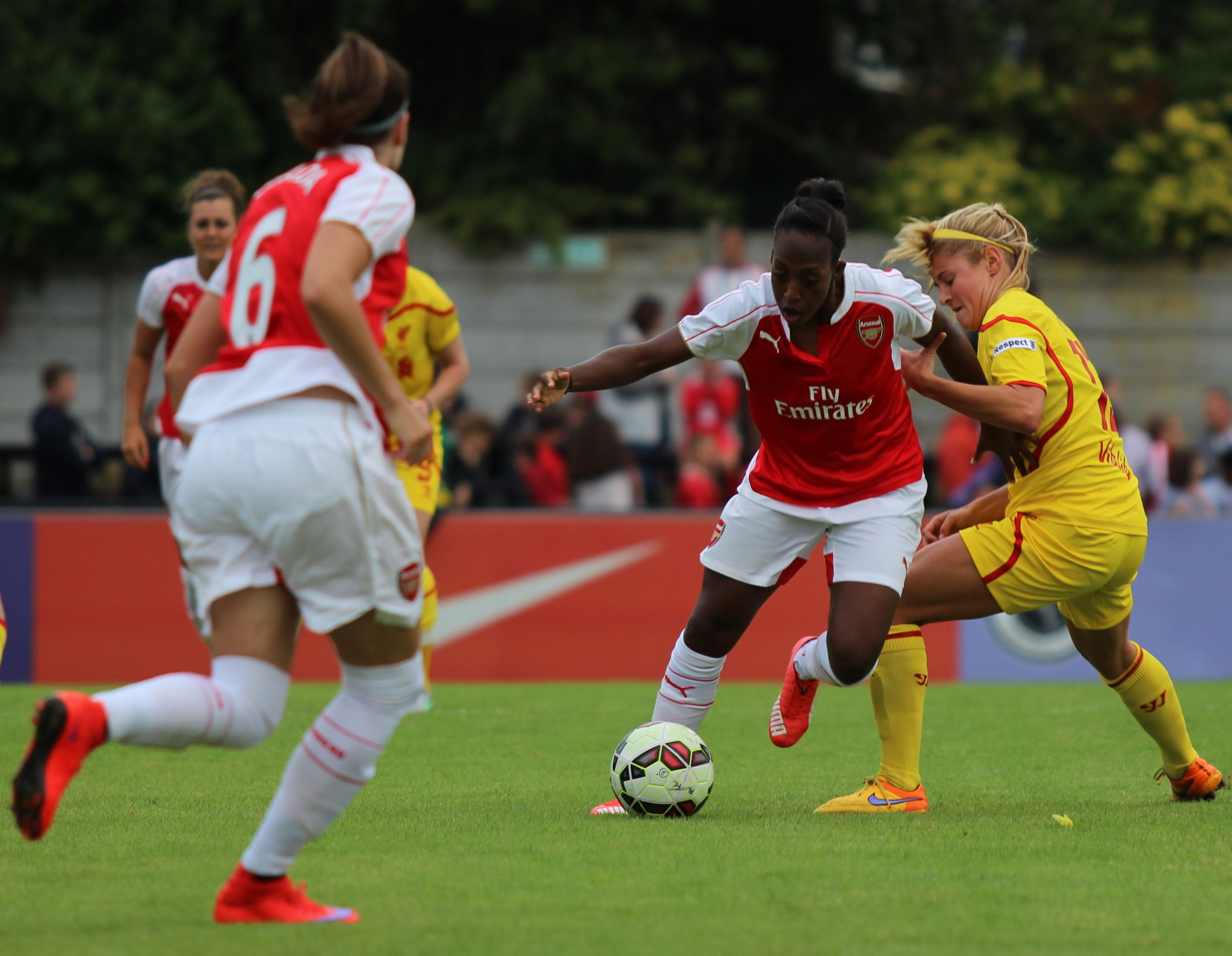 Dan Carter of Arsenal Ladies on the ball during the game against Liverpool.